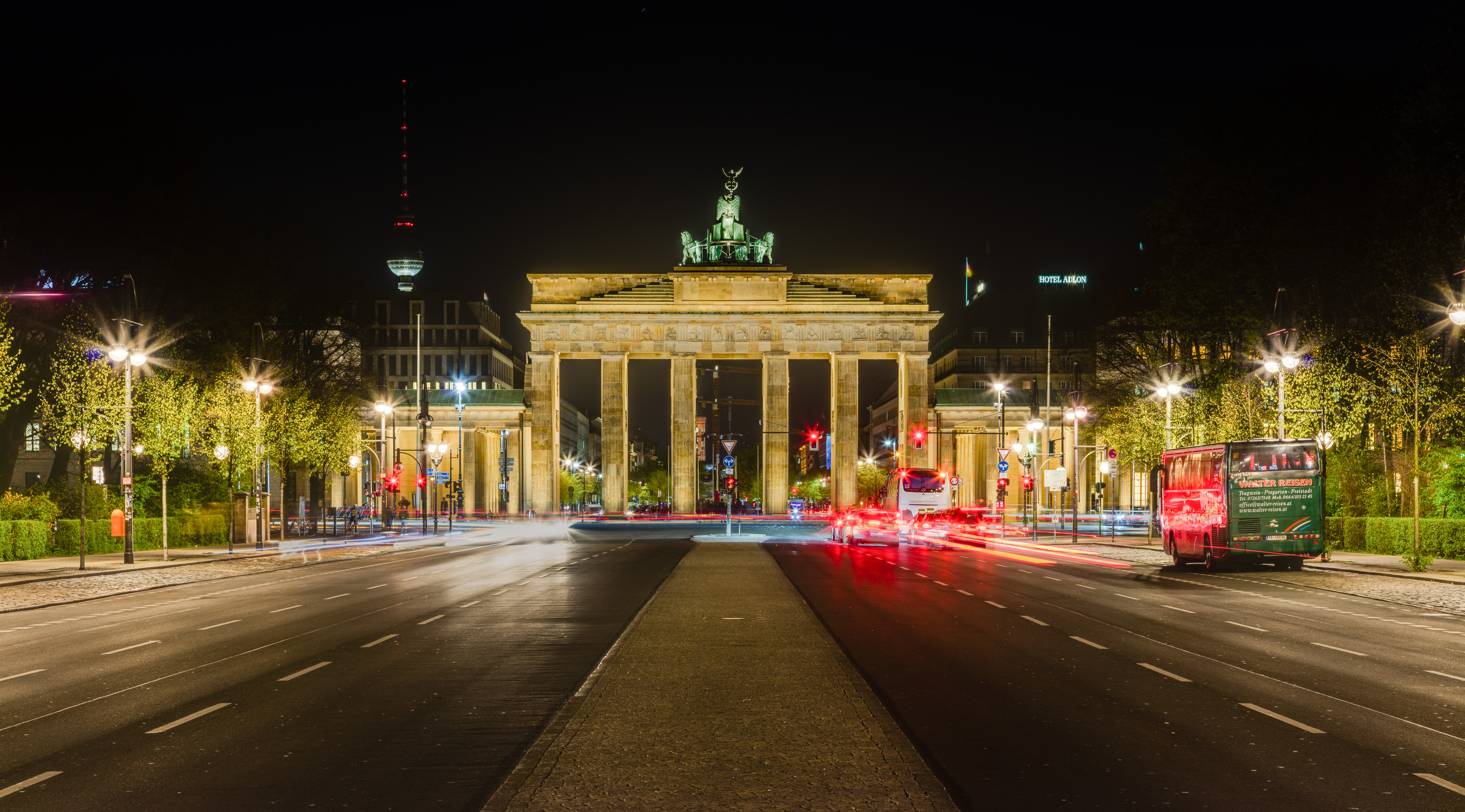 Gate of Brandenburg, Berlin, Germany